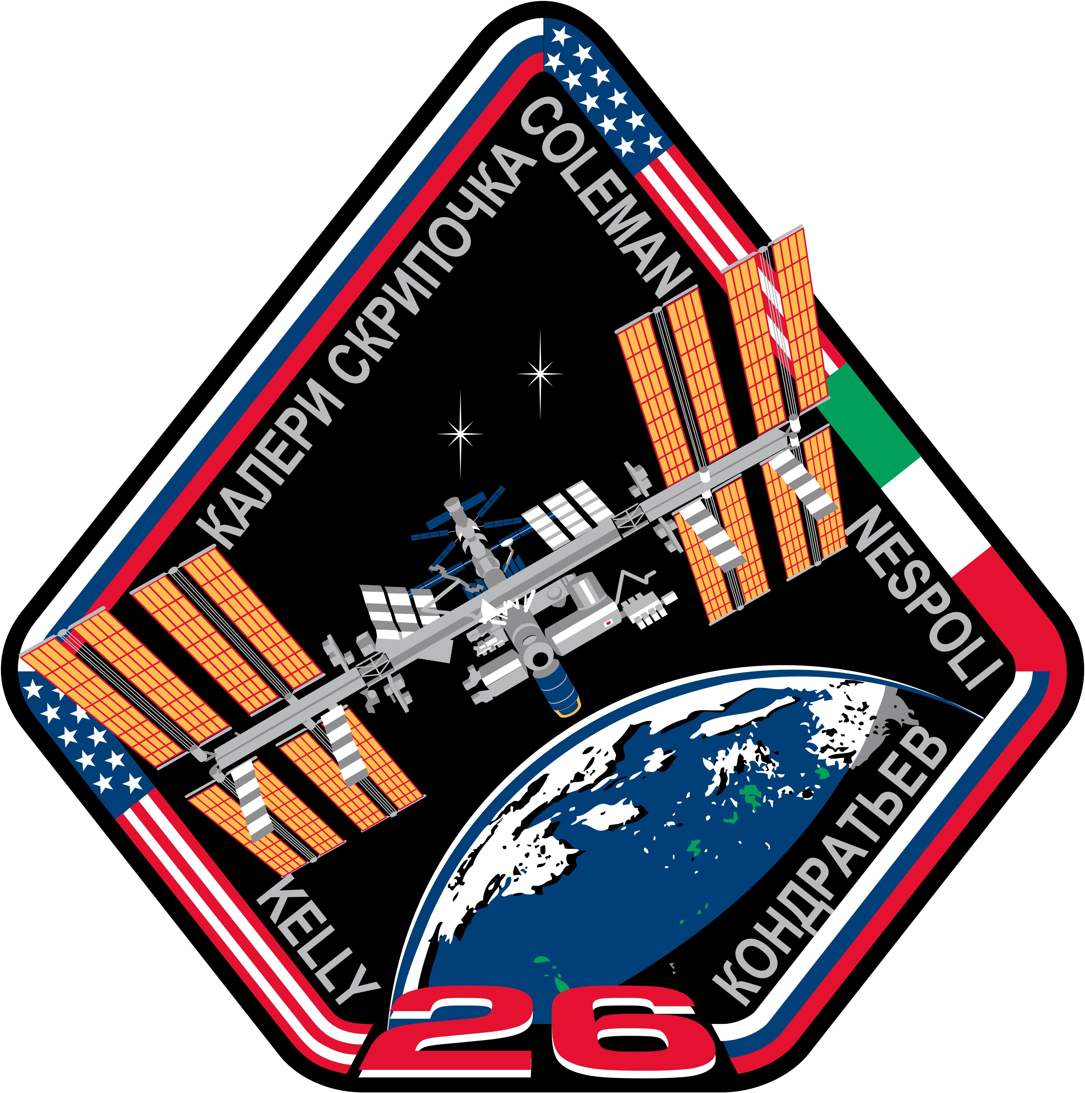 In the foreground of the patch, the International Space Station is prominently displayed to acknowledge the efforts of the entire International Space Station (ISS) team - both the crews who have built and operated it, and the team of scientists, engineers, and support personnel on Earth who have provided a foundation for each successful mission. Their efforts and accomplishments have demonstrated the space station's capabilities as a technology test bed and a science laboratory, as well as a path to the human exploration of our solar system and beyond. The ISS is shown with the European Space Agency's (ESA) Automated Transfer Vehicle (ATV-2), the Johannes Kepler, docked to resupply it with experiments, food, water, and fuel for Expedition 26 and beyond. This Expedition 26 patch represents the teamwork among the international partners - USA, Russia, Japan, Canada, and the ESA - and the ongoing commitment from each partner to build, improve, and utilize the ISS. Prominently displayed in the background is our home planet, Earth - the focus of much of our exploration and research on our outpost in space. The two stars symbolize two Soyuz spacecraft, each one carrying a three-member crew, who for four months will work and live together aboard the ISS as Expedition 26. The patch shows the crewmembers' names, and it's framed with the flags of their countries of origin - United States, Russia, and Italy.